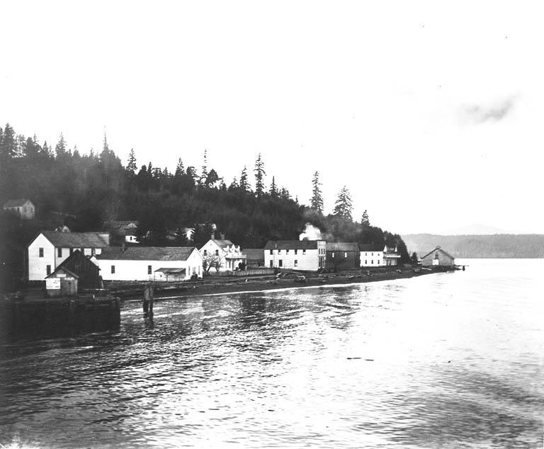 Subjects (LCTGM): Cities & towns--Washington (State); Inlets--Washington (State) Subjects (LCSH): Union City (Wash.) ; Hood Canal (Wash.)